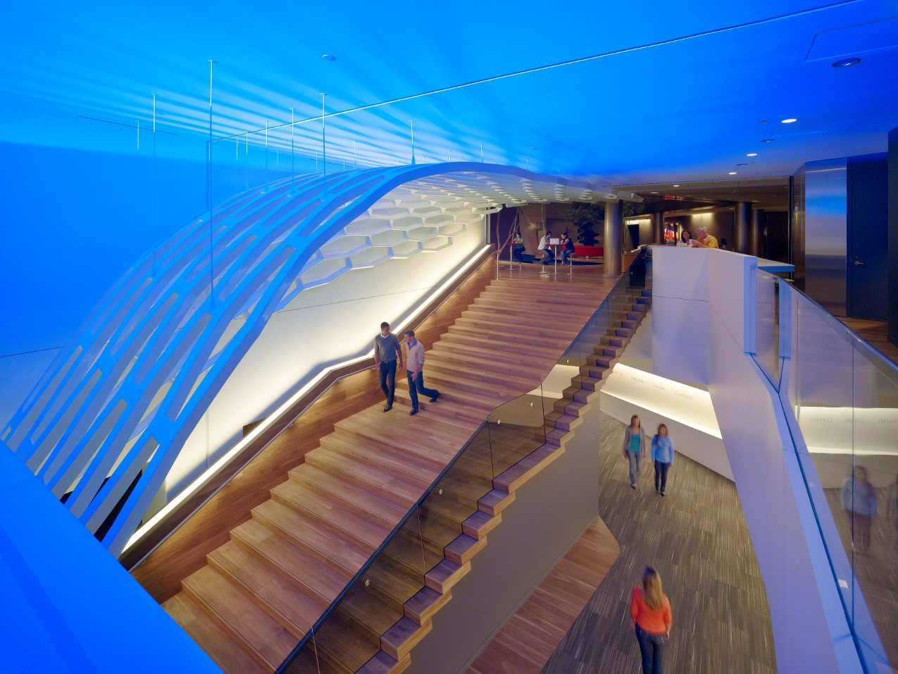 Steelcase Global Headquarters WorkCafe Photo Date:09/14/2012